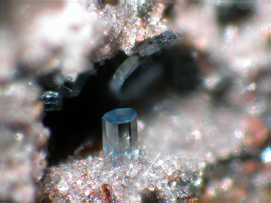 Osumilite, very interesting and rare: A tabular and a prismatic Osumilite right next together, image width: 1.5 mm - Locality: Wannenköpfe, Ochtendung, Eifel region, Germany